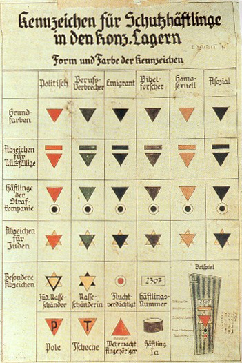 Shows triangle marking system for prisoners in German concentration camps distinguished by form and colour of the marks. The table is divided into rows for basic prisoner colours (Grundfarben für Häftlinge), badges for reoffenders (Abzeichen für Rückfällige), prisoners in the punishment platoon (Häftlinge der Strafkompanie), badges for Jews (Abzeichen für Juden), and special marks (Besondere Abzeichen), as well as columns for various types of accusations: political prisoners (politisch), serial criminals (Berufsverbrecher, [lit.: professional criminal]), emigrant(s), Jehovah's Witnesses (Bibelforscher [lit.: Bible researchers]), homosexuals (homosexuell), and antisocial persons (asozial). The special marks include "Jewish racial offenders" (jüd[ische] Rasseschänder), female racial offenders (Rasseschänderin), persons suspected of escaping (fluchtverdächtigt), the prisoner's inmate ID number (Häftlingsnummer), identification of Polish and Czech prisoners (Pole, Tscheche) by a "P" or "T" in the triangle, Wehrmacht (German army) personnel (Wehrmacht Angehöriger) and celebrities (Häftling Ia). An example sleeve of a prisoner's dress is shown in the lower right section (Beispiel). Jews were identified by an upright yellow triangle under the main classification triangle